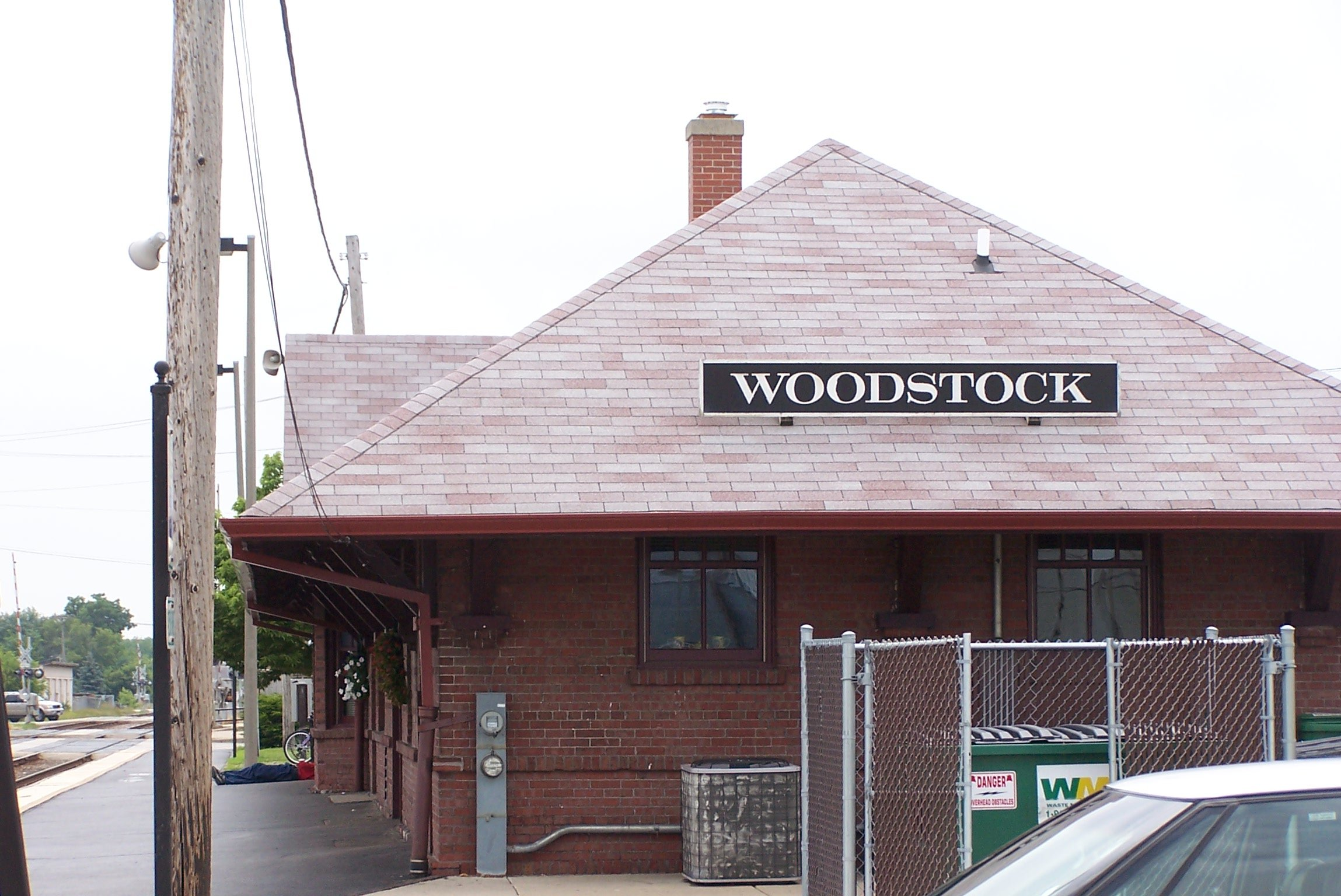 Woodstock Illinois Railroad Station